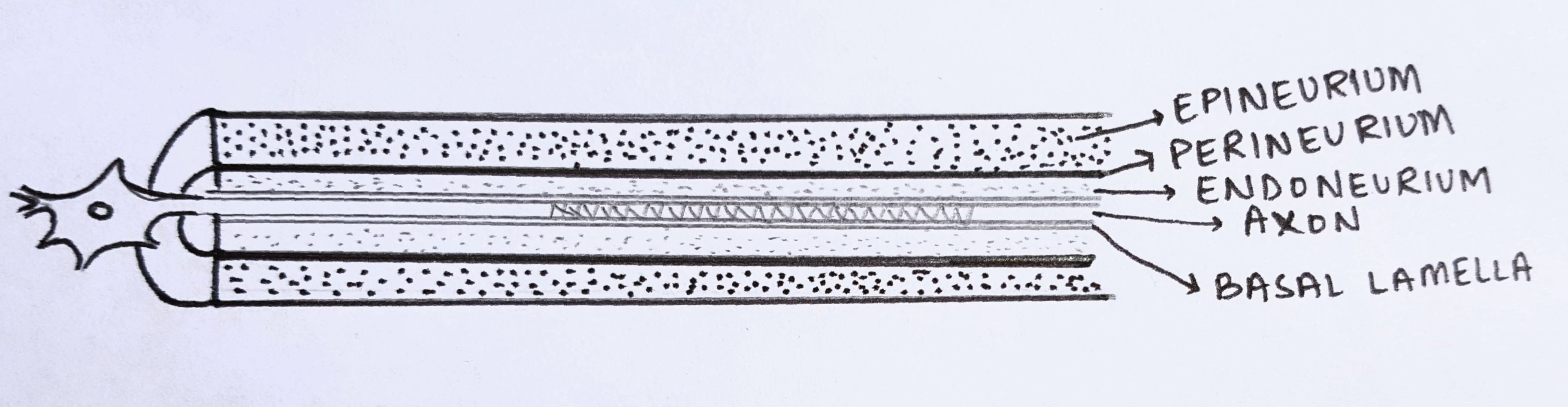 This is a hand drawing of parts of a nerve with axonotmesis